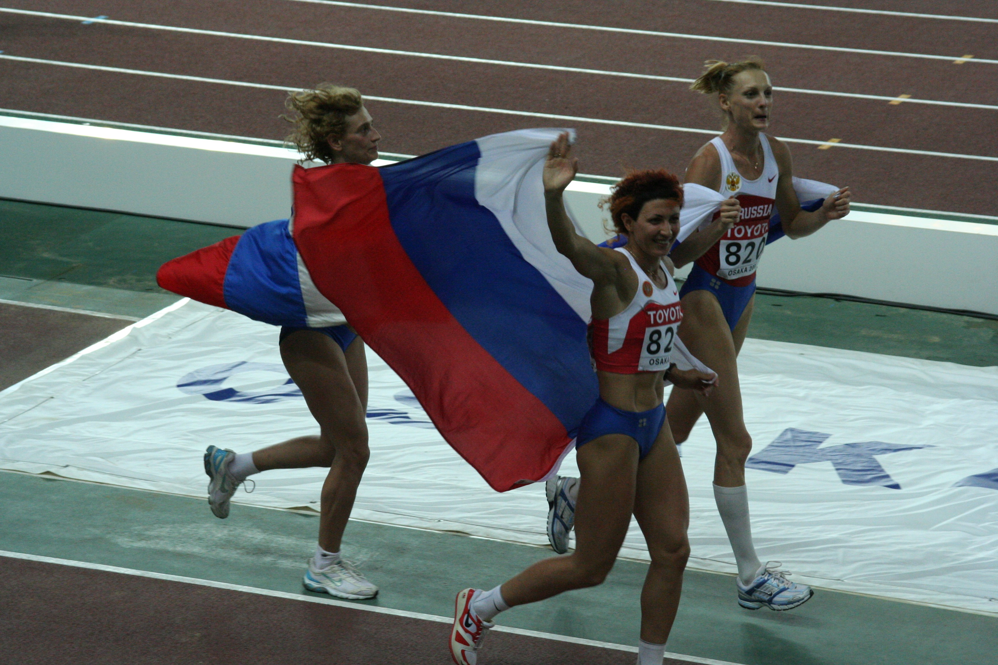 World Athletics Championships 2007 in Osaka - After a triple success for Russia in the women's long jump, Tatyana Lebedeva (foreground), Tatyana Kotova (right) and Ludmila Kolchanova (left) are celebrating